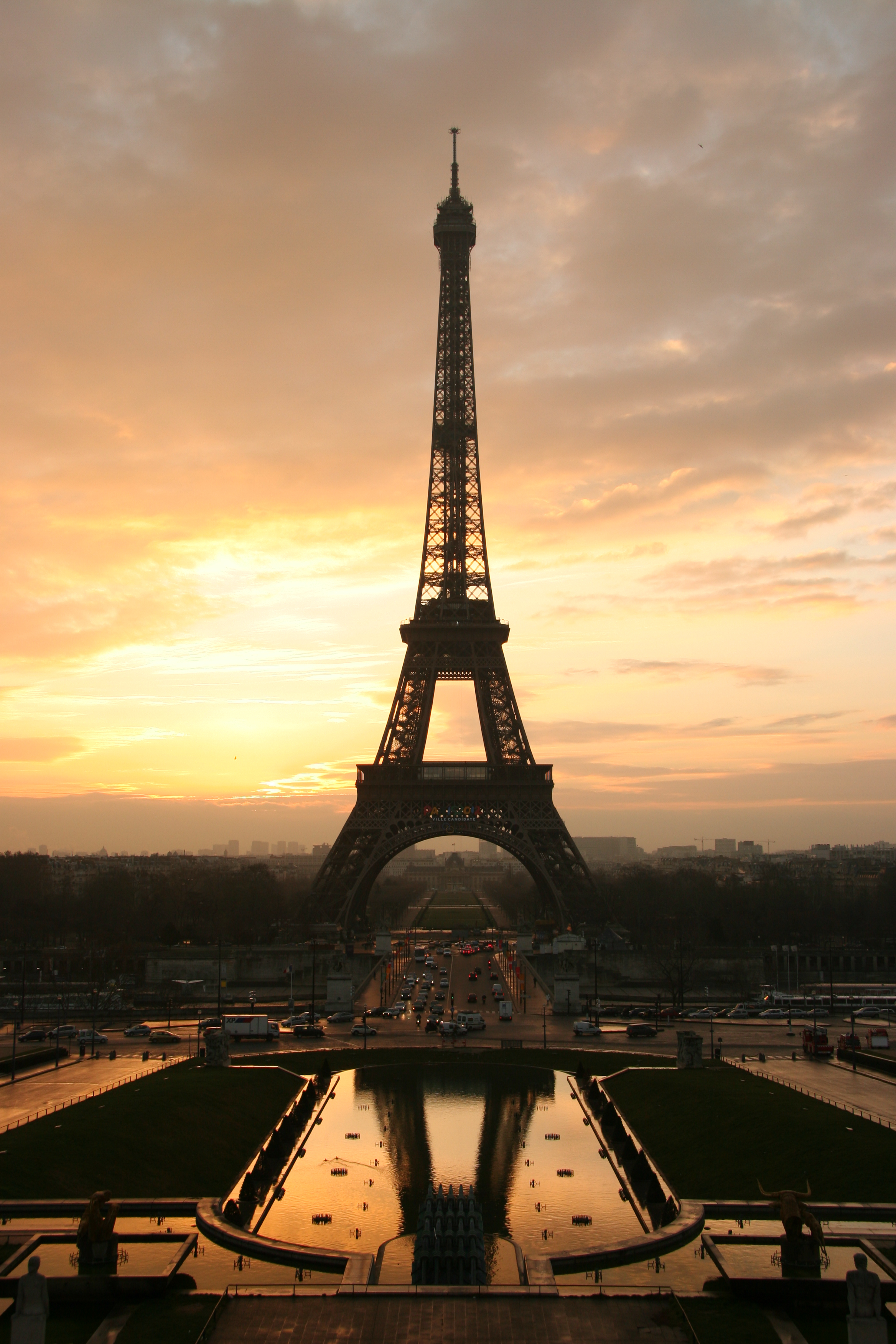 The Eiffel tower at sunrise, taken from the Place du Trocadero. Paris, France.